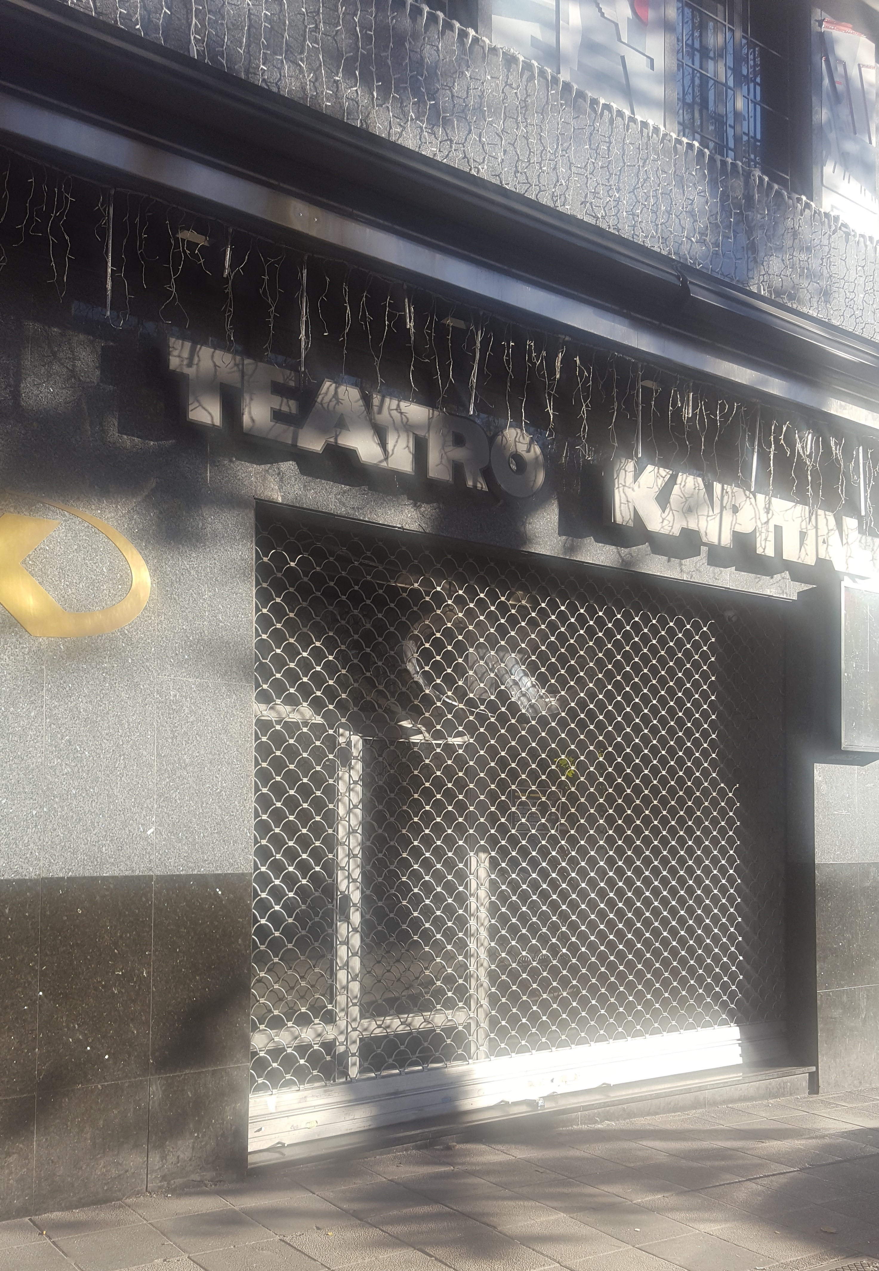 Disco Club "Teatro Kapital" in Madrid